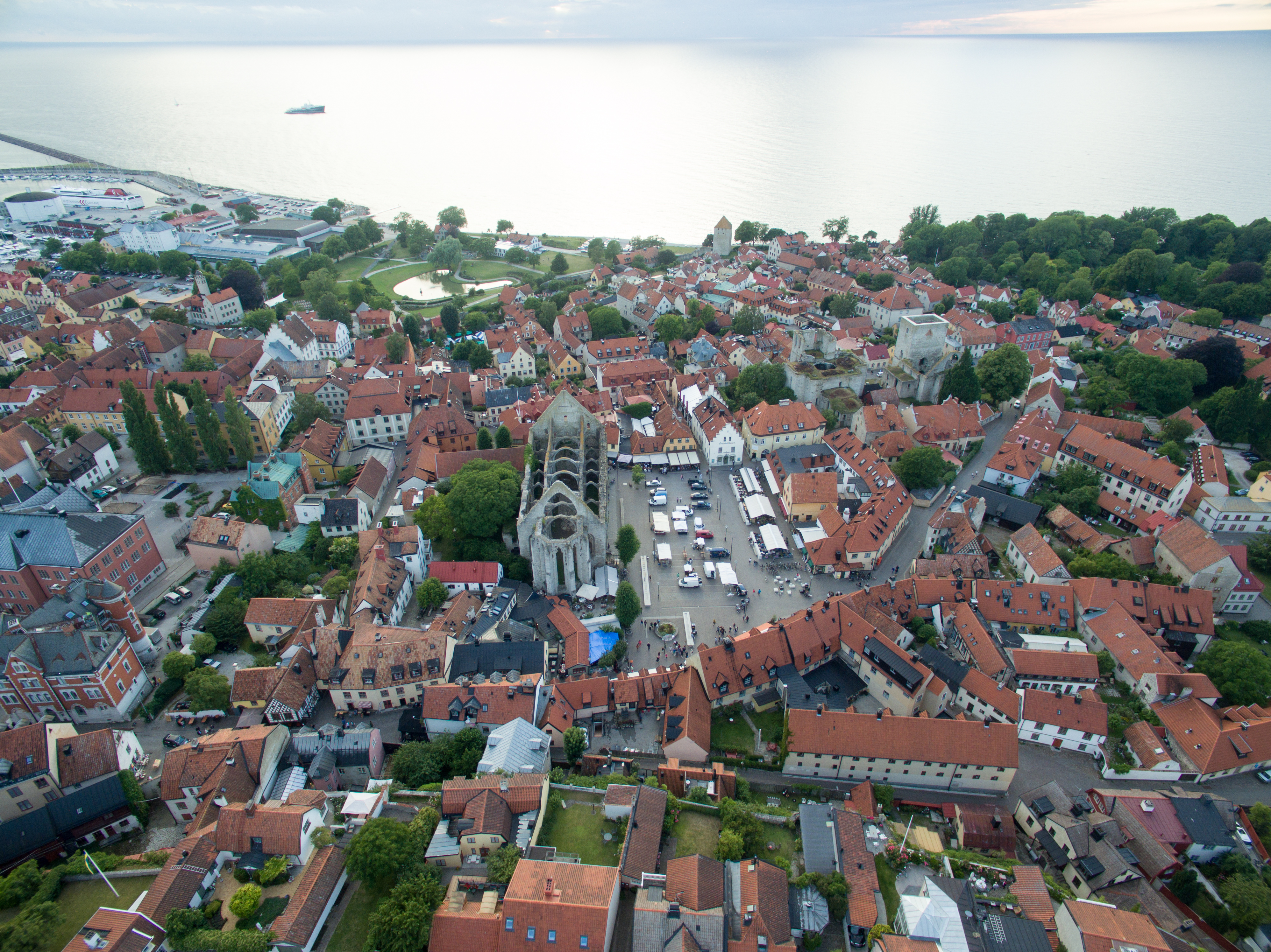 Aerial photograph of Visby within the city walls. Main square (Stora torget) in the centre.